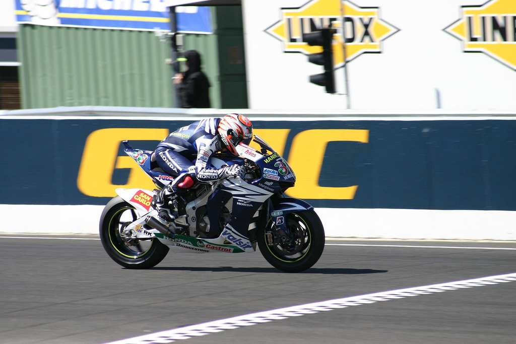 Marco Melandri, Phillip Island, 2007